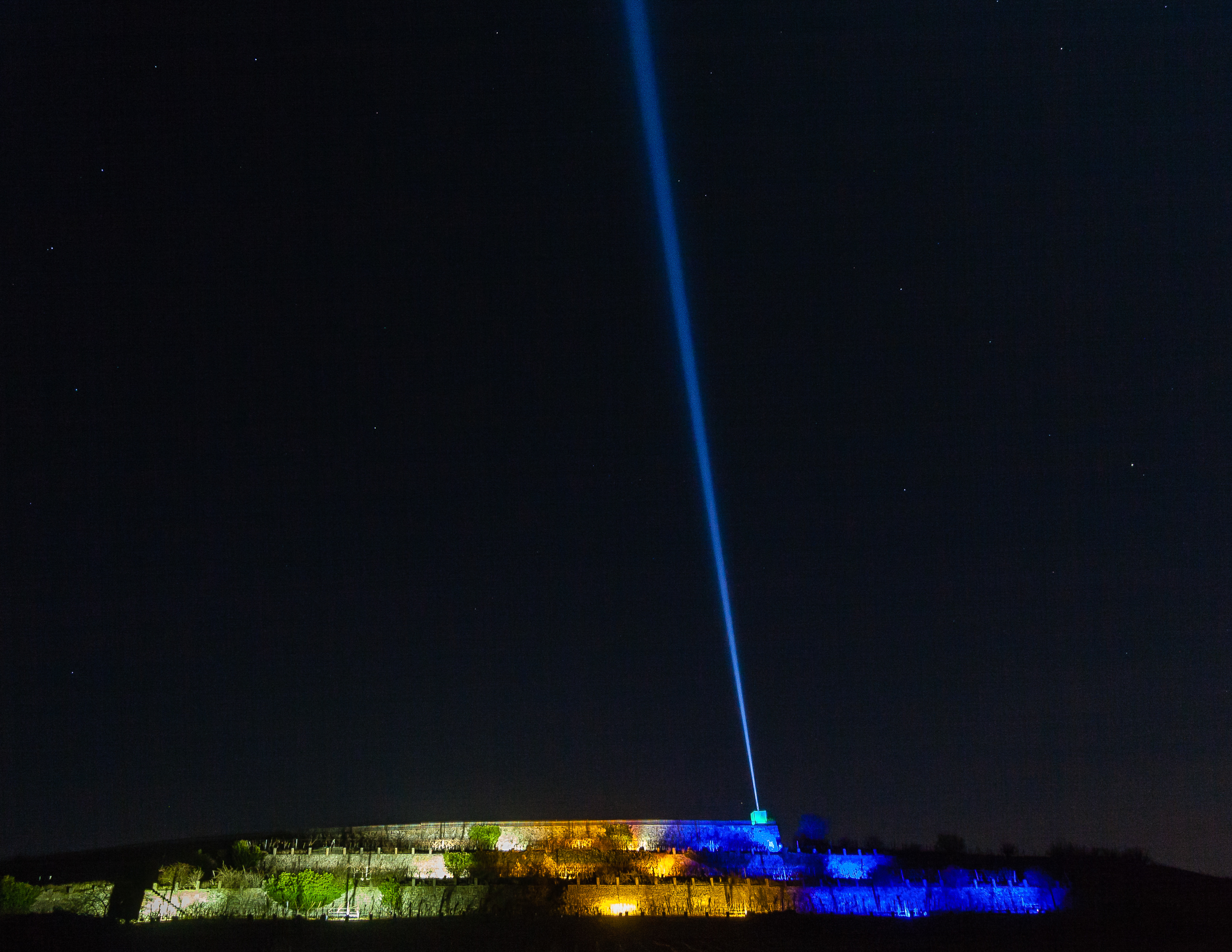 Sky floodlight at vineyard lighting